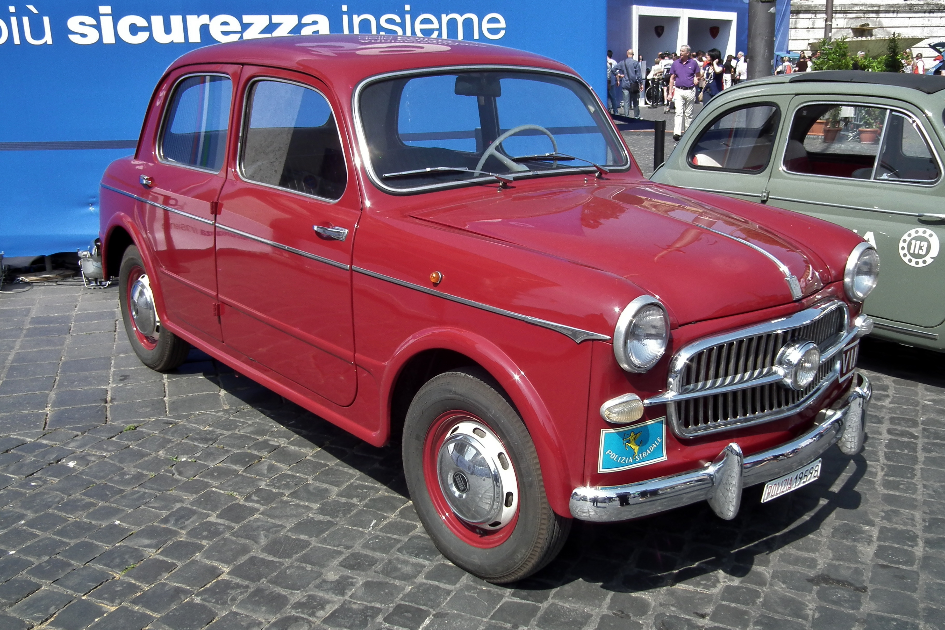 Fiat 1100 sedan. Operated by the Polizia Stradale (Highway Patrol) of the Polizia di Stato (Italian State Police). Taken at a Polizia display in the Piazza del Popolo in Rome.